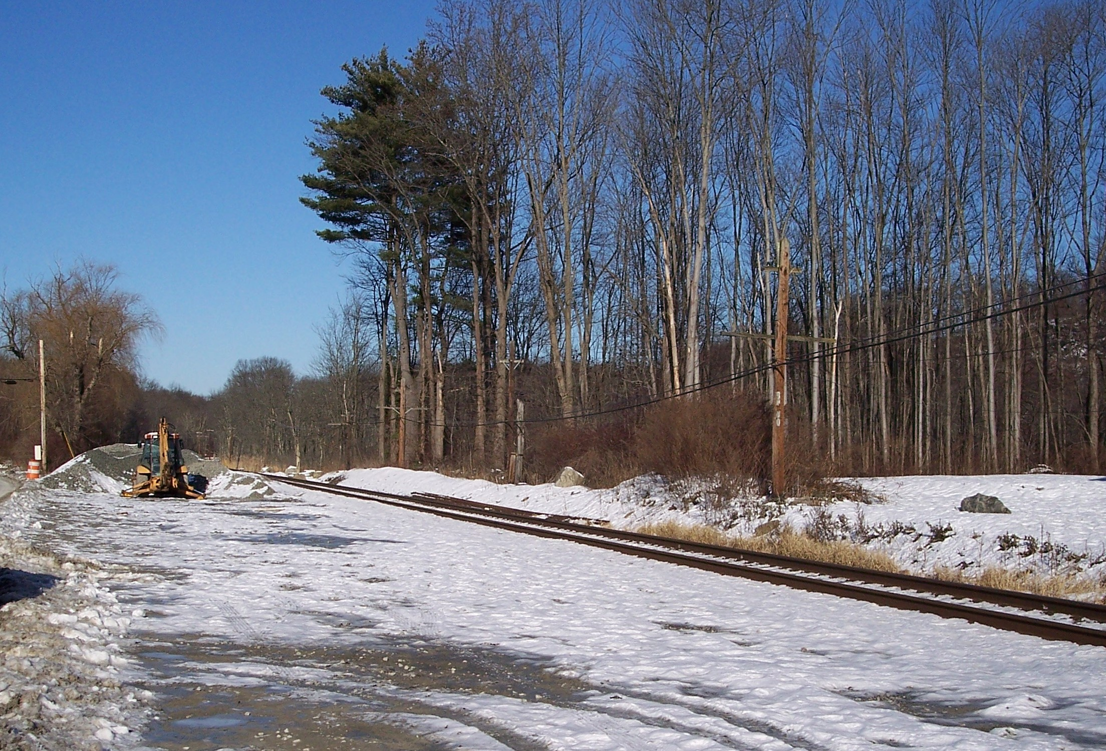 Location of the former Dyckmans train station.